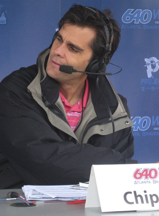 Atlanta Braves broadcaster Chip Caray in 2009.